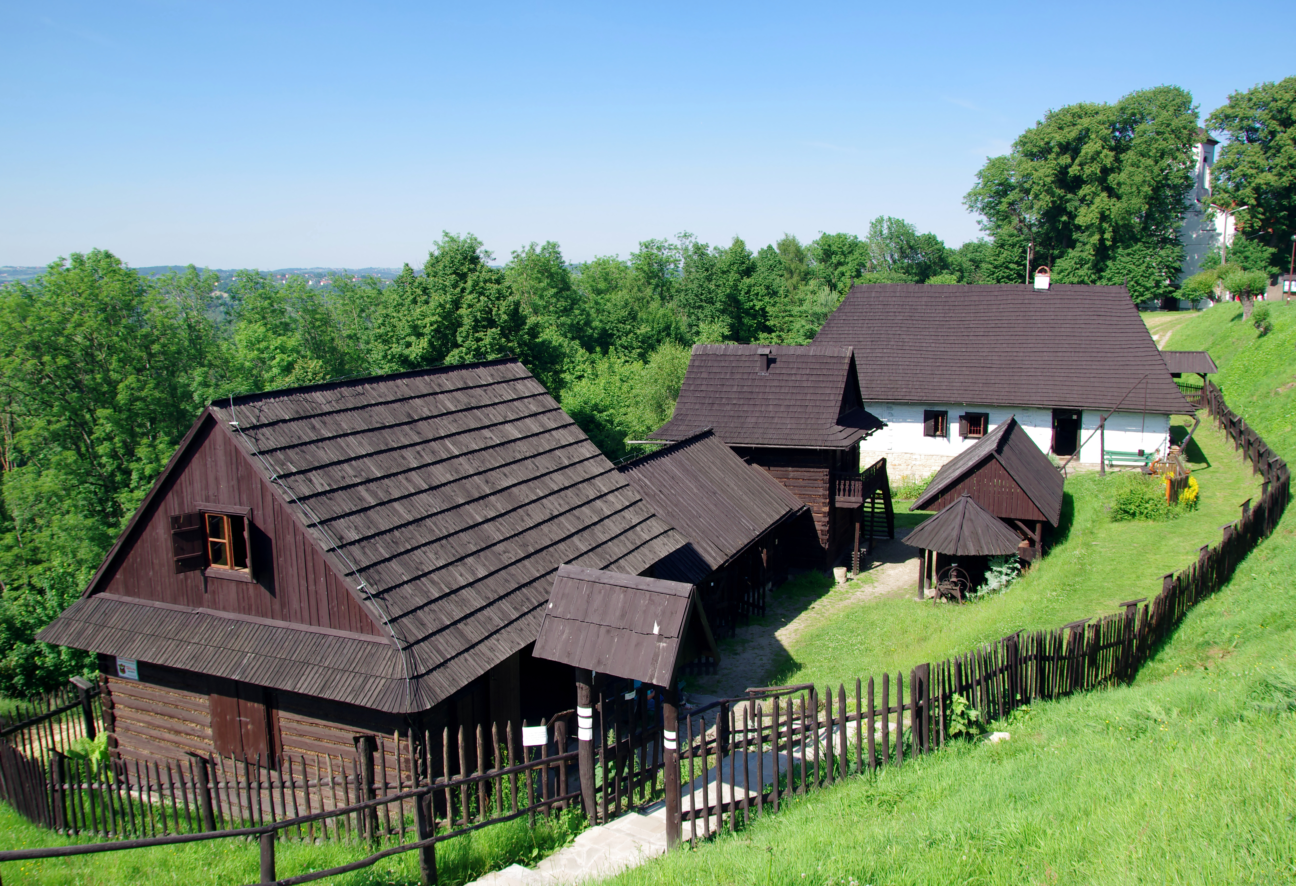 Skansen in Dobczyce